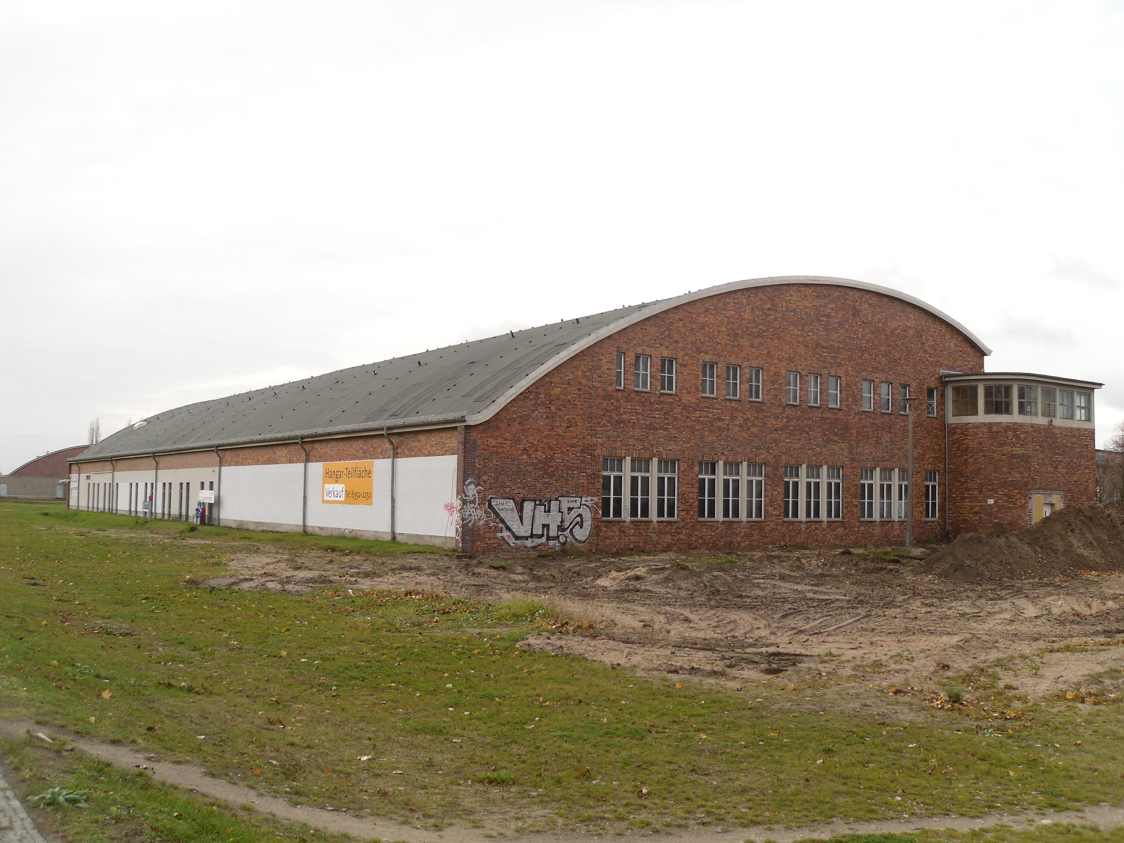 Old building in Adlershof